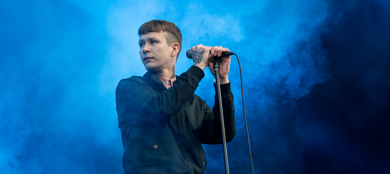 John Olav Nilsen og gjengen at Øyafestivalen 2013